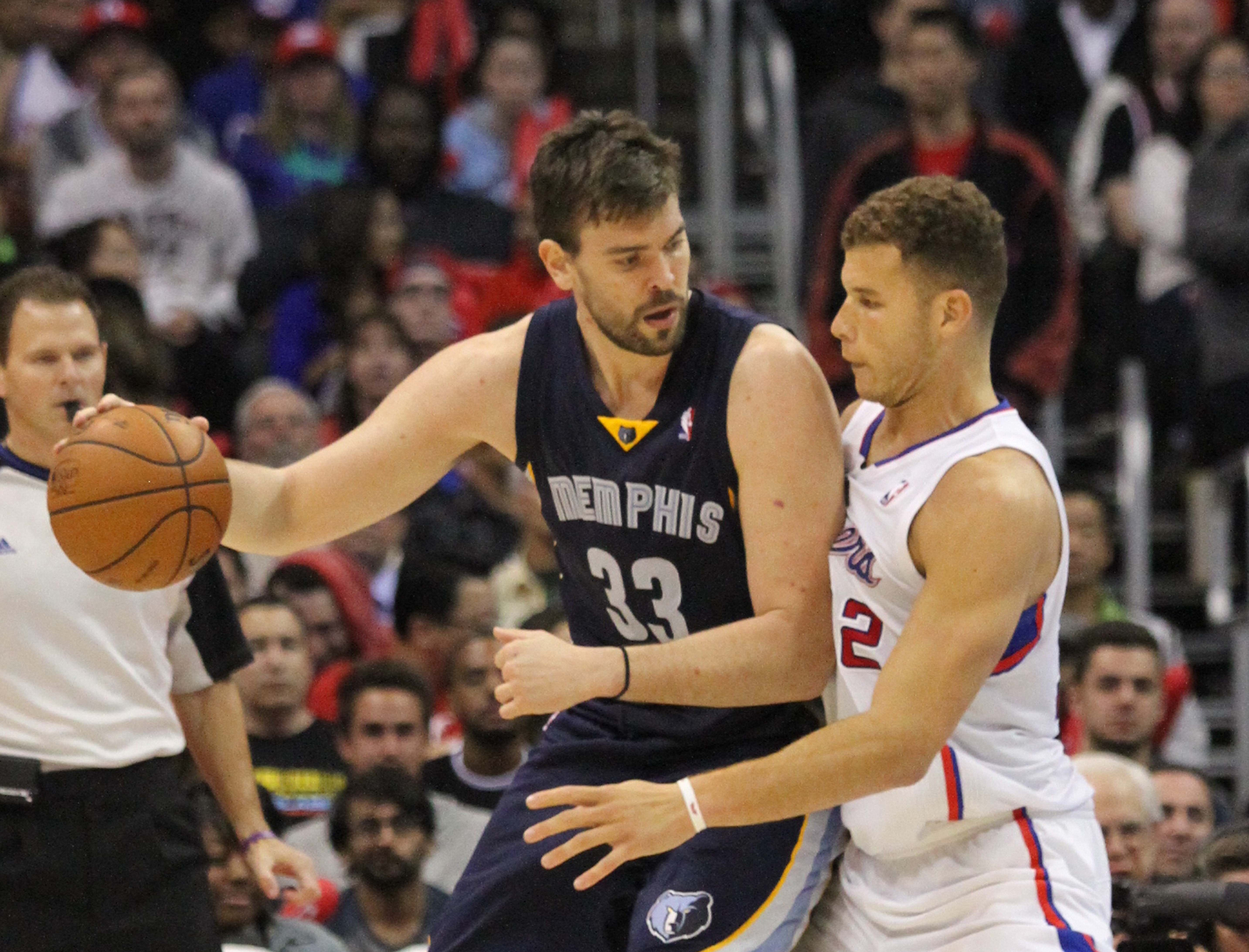 Marc Gasol of the Memphis Grizzlies and Blake Griffin of the Los Angeles Clippers.